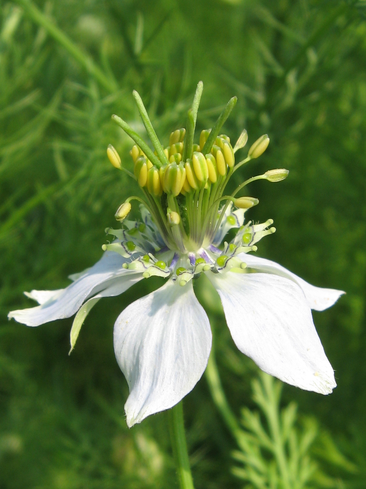 File:b1243427731corek_otu_yagi.jpg Nigella sativa, photographed in the Vienna Botanical Garden, Rennweg 14, 1030 Wien, Austria